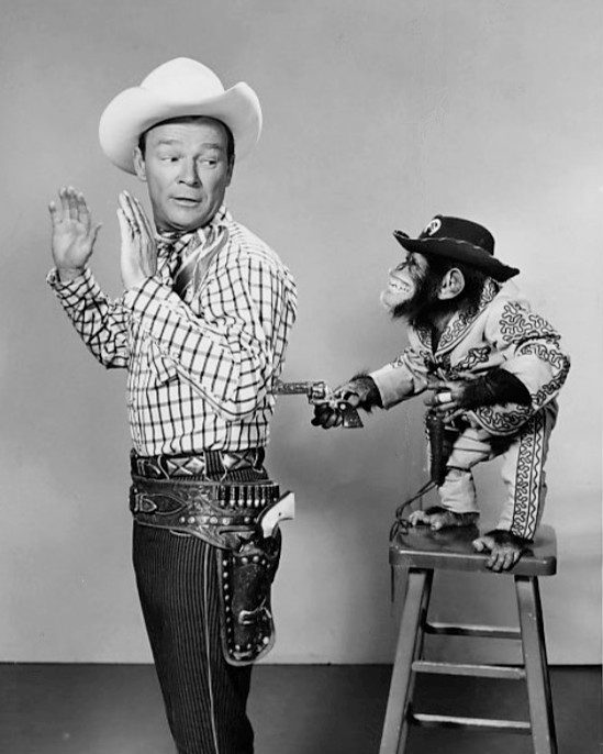 Photo of Roy Rogers in a guest appearance on TV's The Dinah Shore Chevy Show.